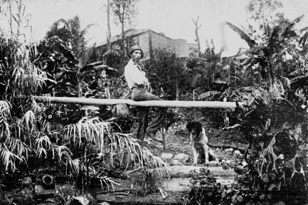 Meteorologist, Clement Wragge, at home in his tropical garden at Taringa, Brisbane, ca. 1902 Caption on photograph: Our meteorologist at home - Mr Wragge in his tropical garden at Capemba. Capemba was the name of Wragge's residence in Taringa.